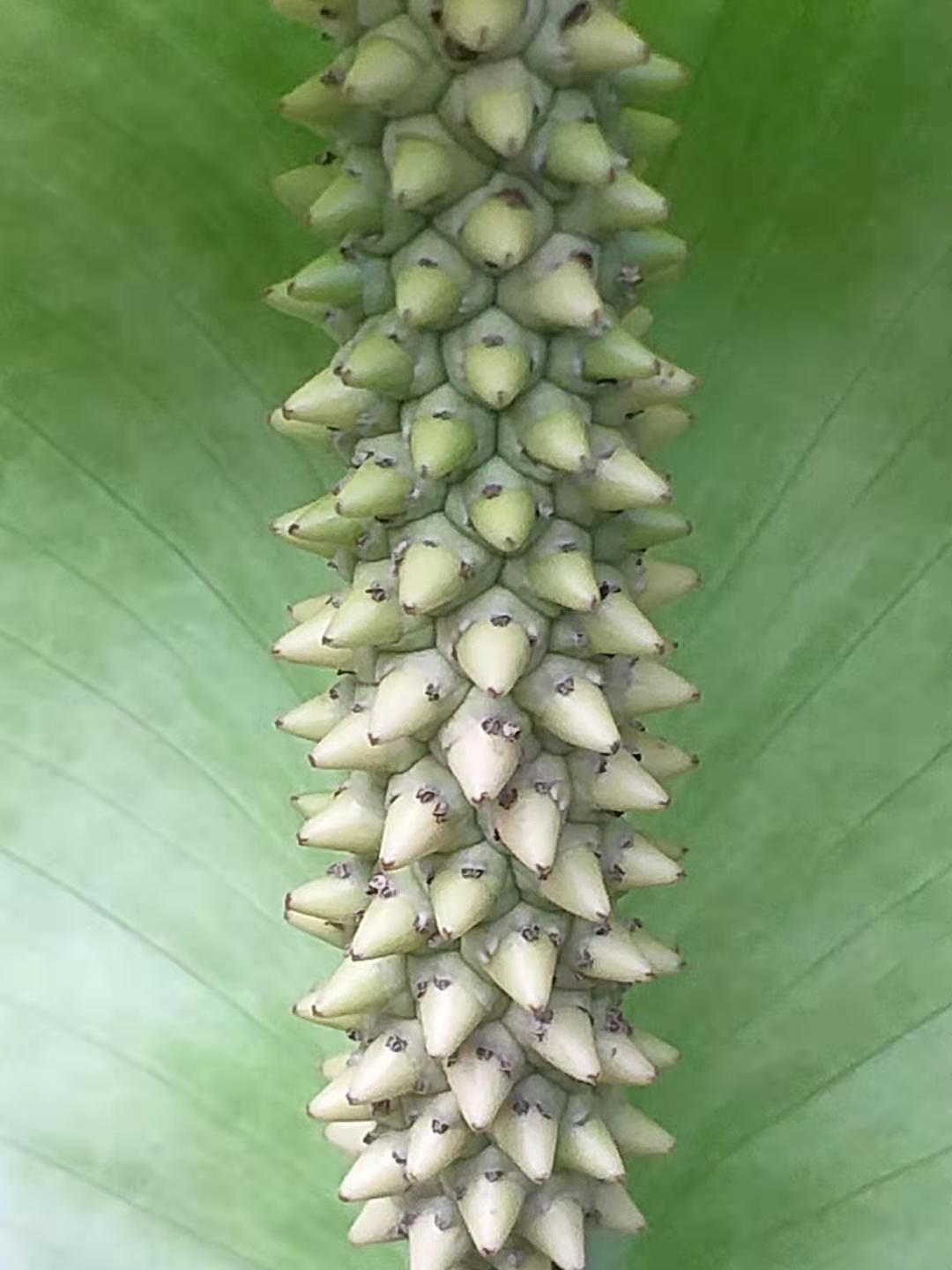 Spadix. Botanical Garden of National Museum of Natural Science, Taichung, Taiwan.